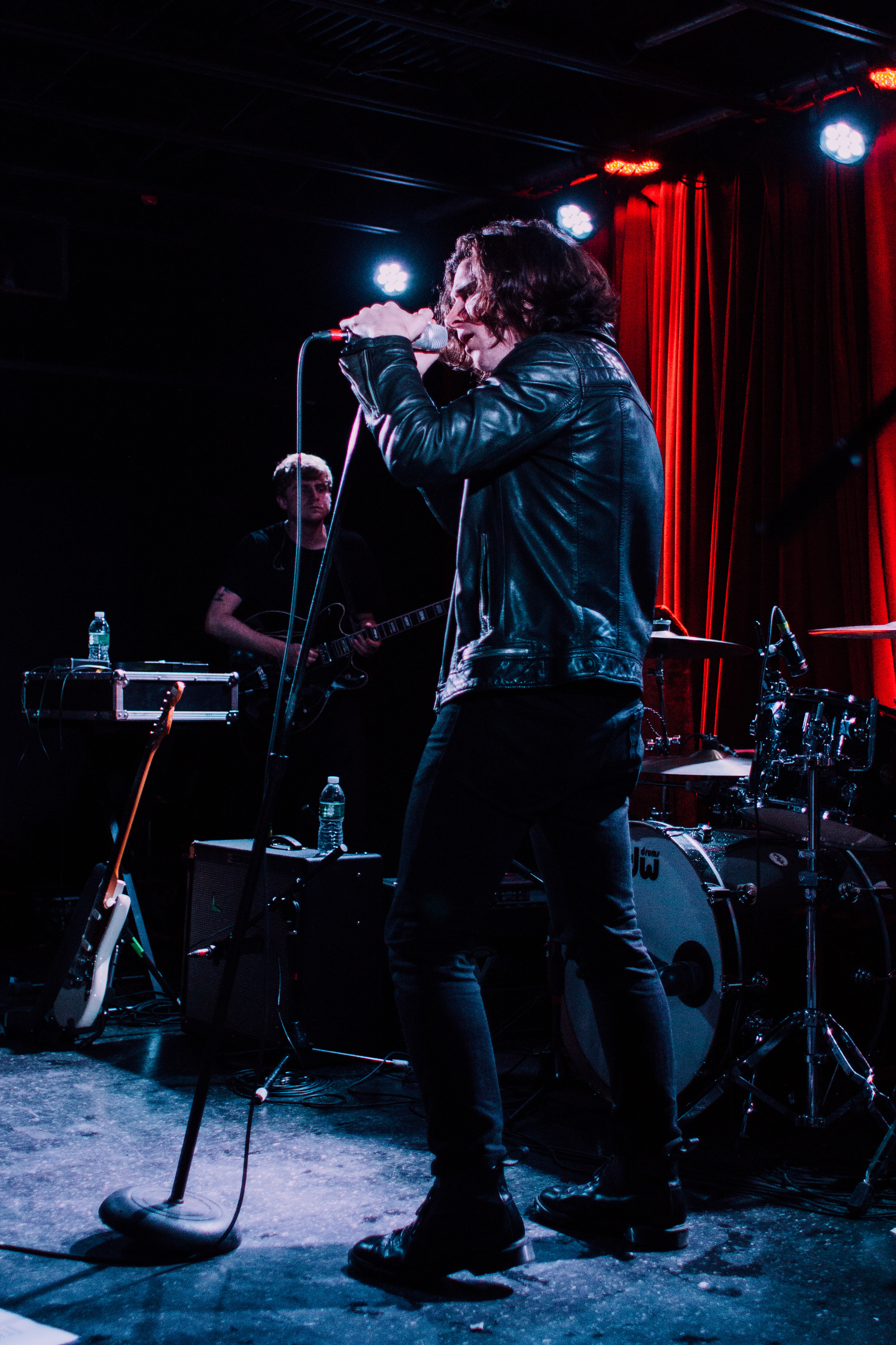 Coasts